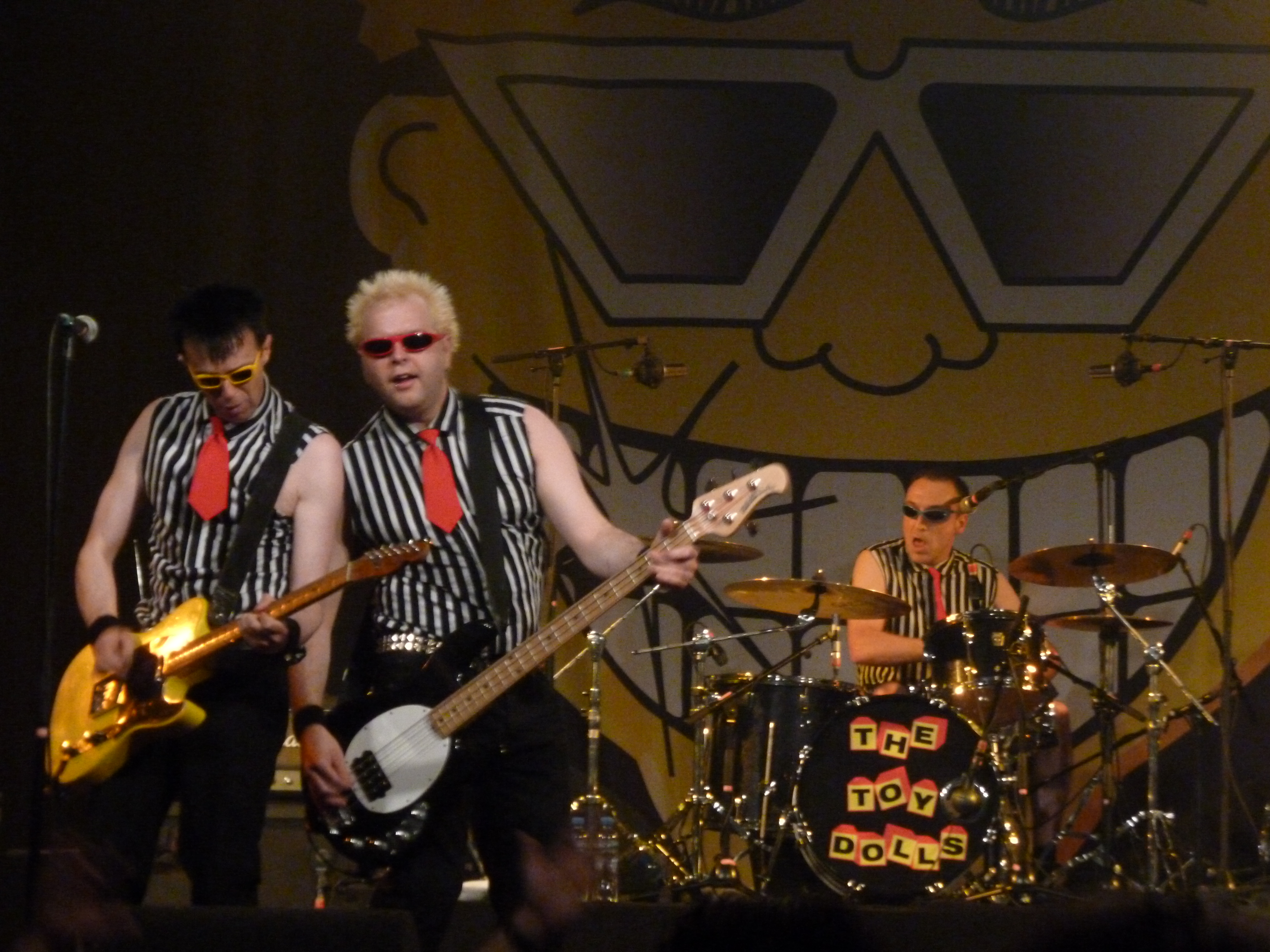 The Toy Dolls playing in Melkweg, Amsterdam, 2012.